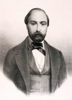 French composer and pianist Adrien Talexy (1820-1881)